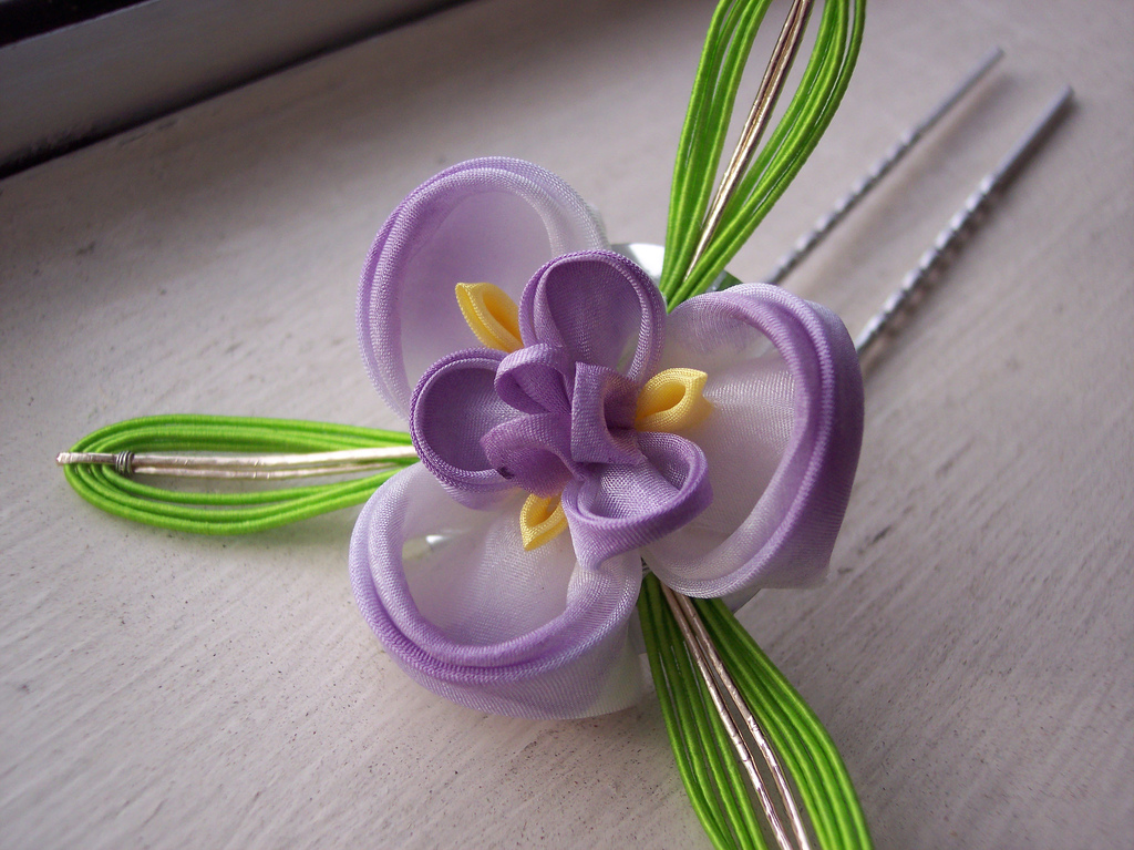 Amateur tsumami kanzashi representing May.